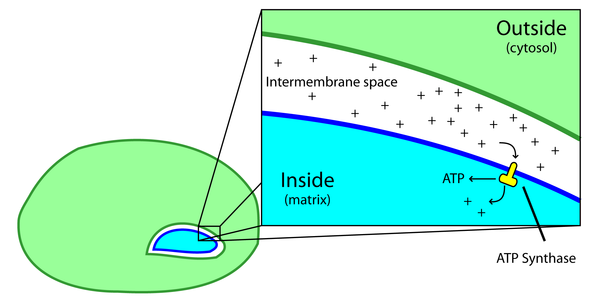 A simple representation describing the function of ATP synthesis in mitochondria